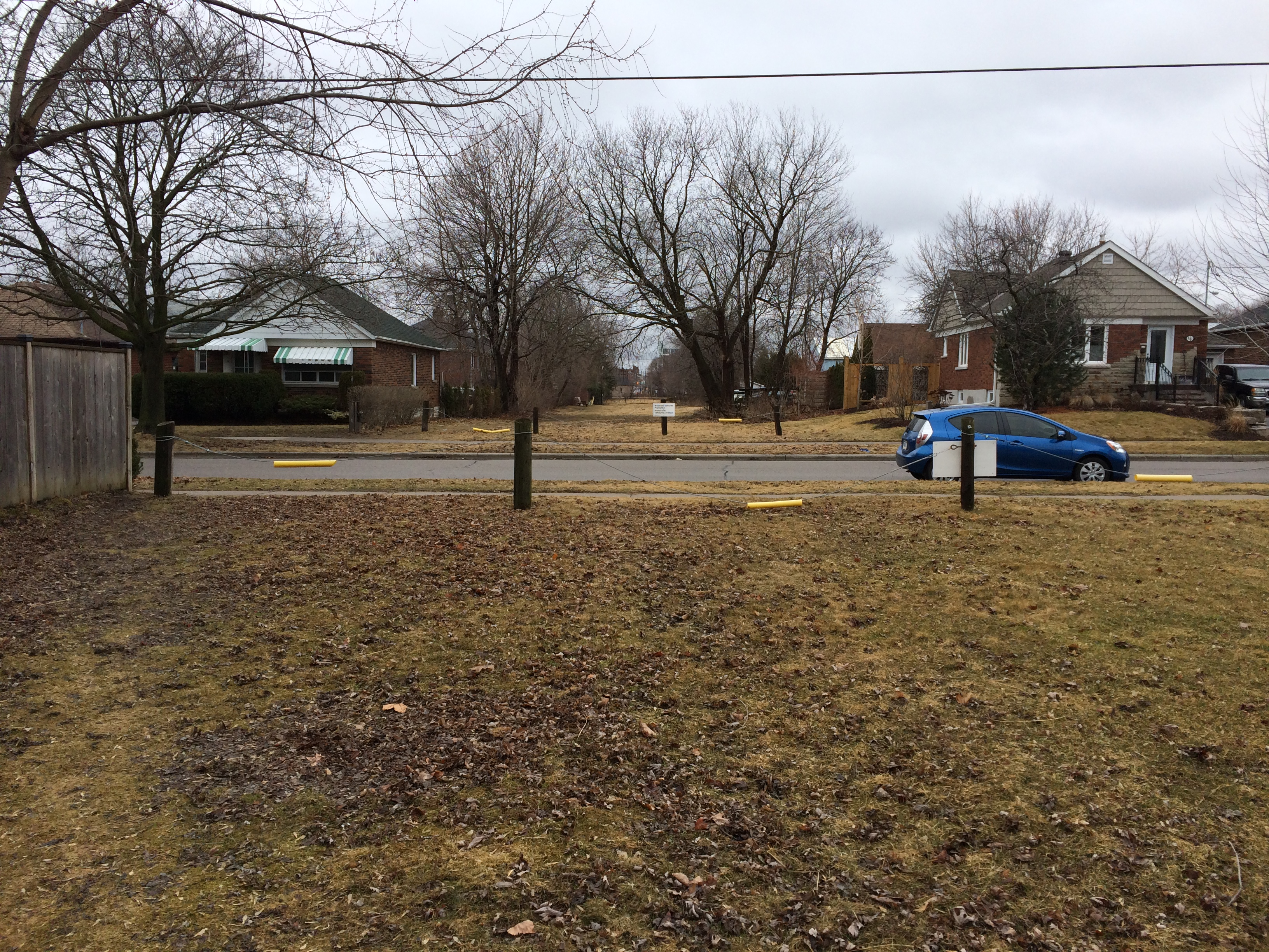 The Toronto Eastern Railway ran through Oshawa on a separate right of way that has mostly been reused for roads and other purposes. This short section is one of the only portions left undeveloped in the city. As with many other former railways, the land is now owned by Ontario Hydro. The line runs parallel to Bond and King streets, roughly between them. This section is photographed looking west from a few meters east of Cadillac Ave. To the east of this point, it has been developed as a parking lot in a small strip mall. It runs west to just short of Oshawa Blvd.